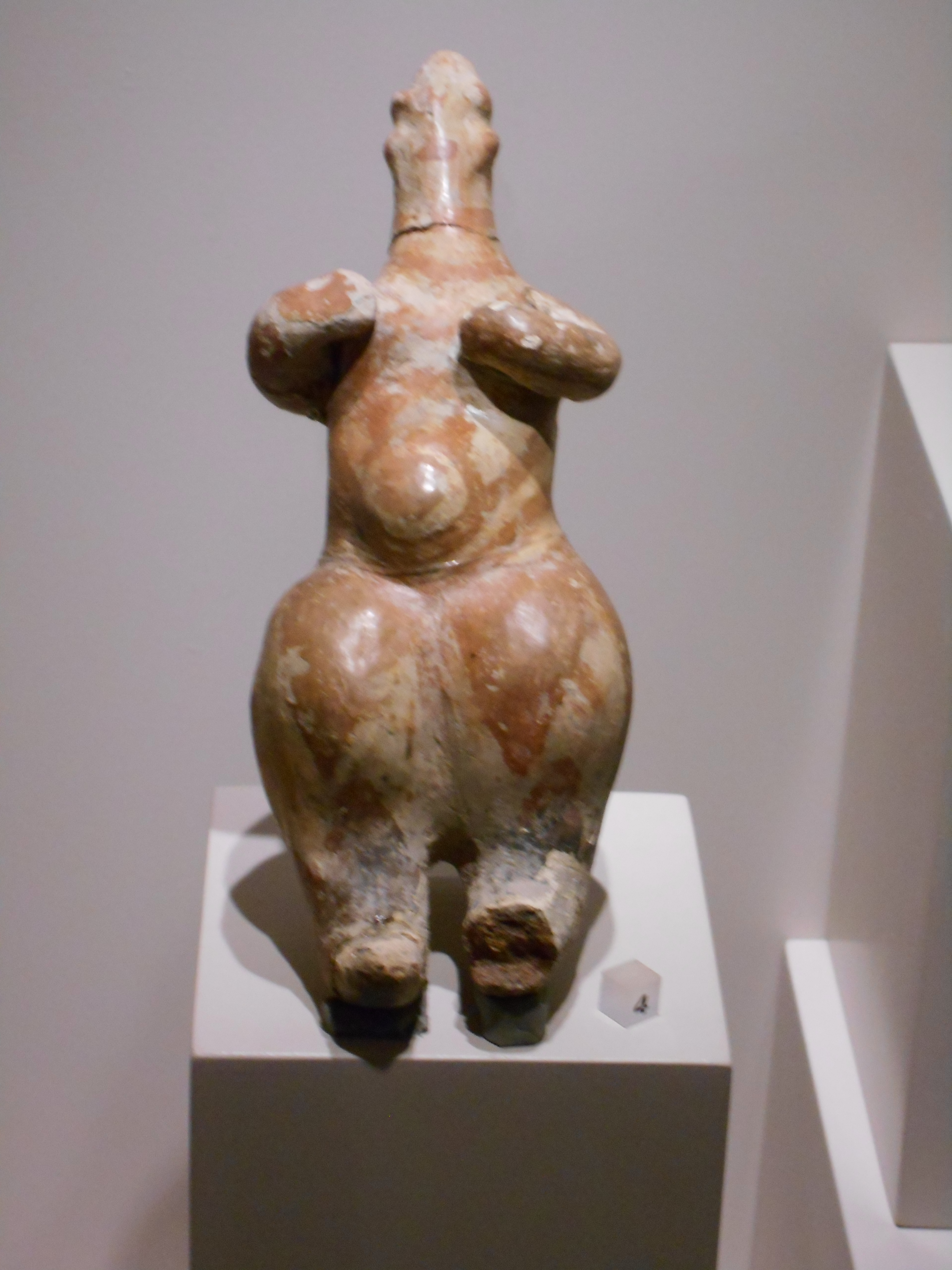 Terracotta figurine of a mother goddess, chalkolithical age, in the Archeological Museum of Alanya, Turky